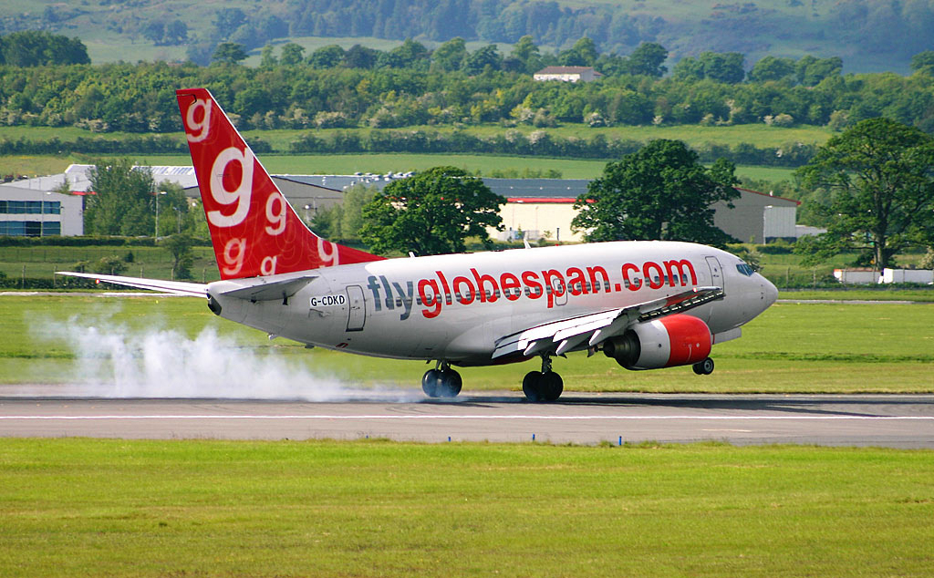 This image was taken by Martin J.Galloway. Donated from the British Photo Encyclopedia Dotonegroup : talk. Flyglobespan Boeing 737 version 683, landing on Runway 05 Glasgow International Airport, Scotland.